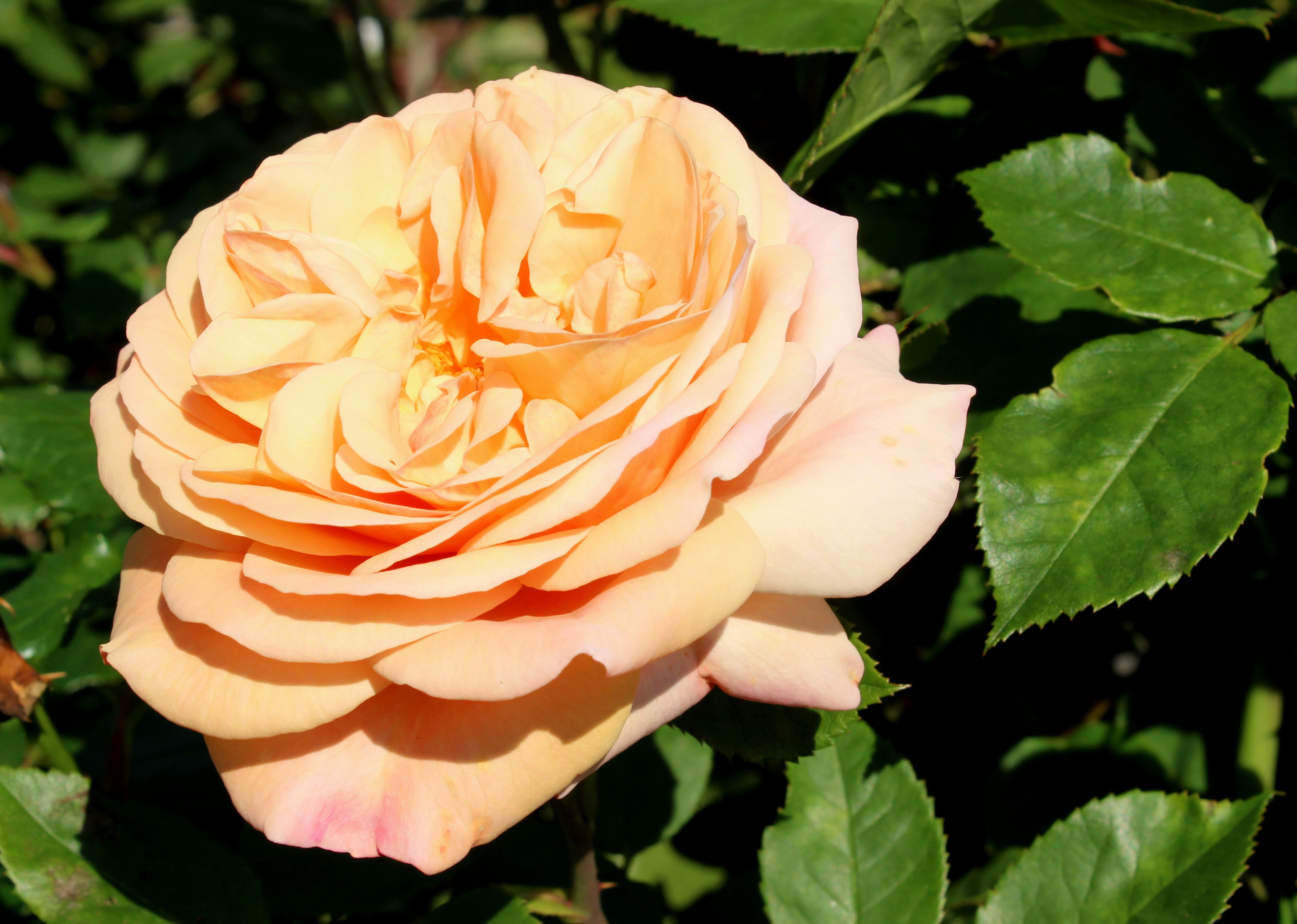 Rosa 'Abraham Darby' in the Volksgarten in Vienna. Identified by sign.